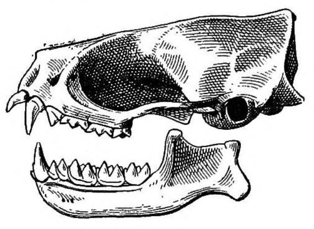 Cynomops planirostris, formerly Molossops planirostris